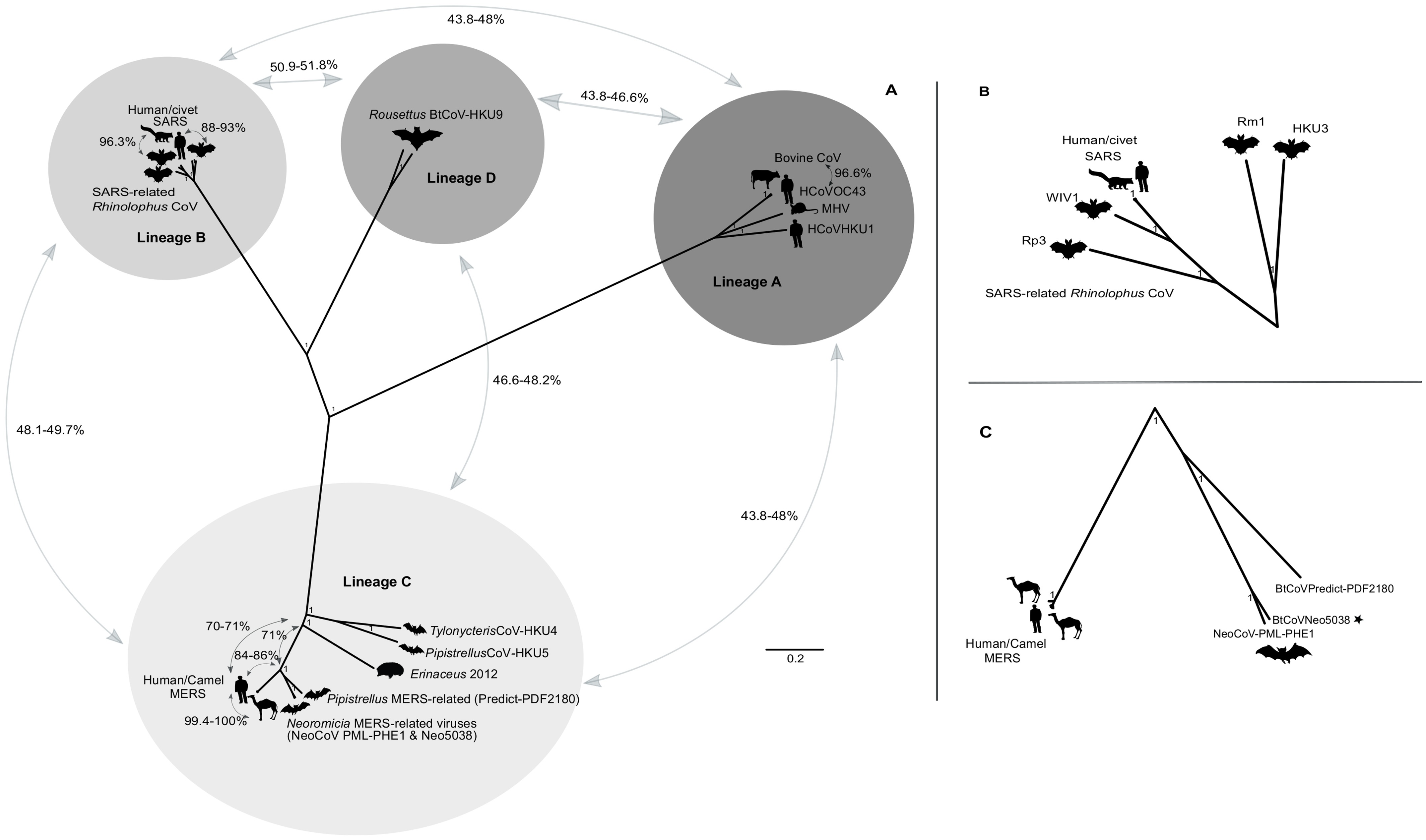 Betacoronavirus full genome phylogeny. A) The full genome phylogeny of 4 lineages (A-D) of the genus Betacoronavirus constructed using BEAST software with the GTR substitution model using invariant sites and gamma distribution. The MCMC chain was set to 15,000,000 generations sampled every 1500 steps, with a 10% burn-in of the first generated trees and displayed as a radial tree in Figtree. The lineages are indicated with clipart images of host species. Also displayed are the averaged pairwise similarities between lineages as well as highlighted similarities between human coronaviruses and related viruses identified in bats (and other animals). B) Close-up of the external nodes of the lineage B phylogeny to show relative distances of human and civet SARS-CoV strains and SARS-related Rhinolophus strains (WIV1, Rp3, Rm1 and HKU3). C) Close-up of the lineage C external nodes depicting the human and camel MERS strains with the bat MERS-related viruses (BtCoVNeo5038 from this study is indicated with a star). Sequence abbreviations and GenBank accession numbers are listed in S10 Table.